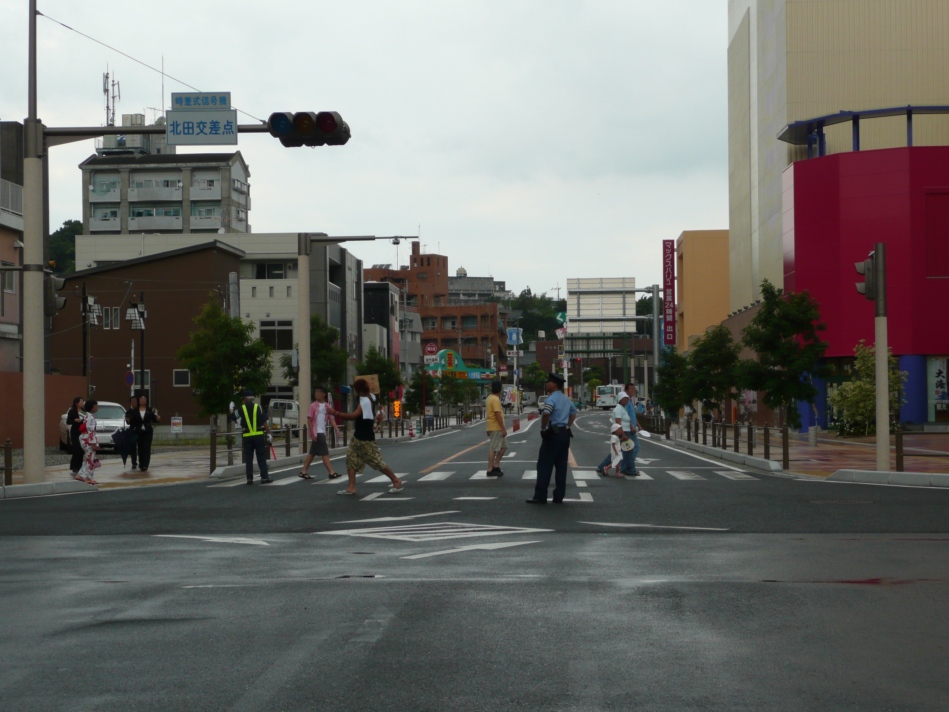 National Route 504 - Origin (Kitada-cho, Kanoya City, Kagoshima, Japan)